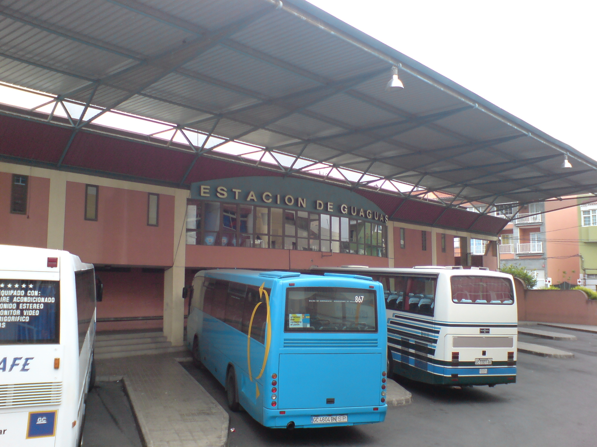 Bus Station of Vega de San Mateo, Gran Canaria (Canary Islands)